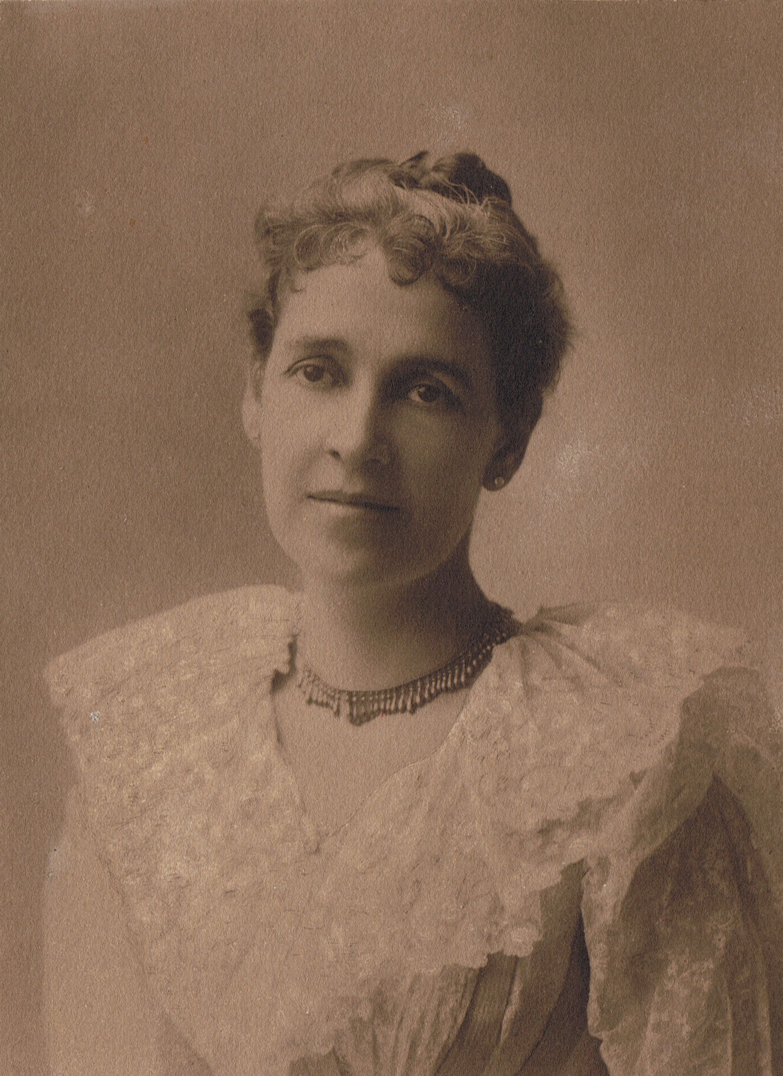 A platinum print photograph of Philadelphia poet Florence Earle Coates pasted into a copy of Mrs. Coates' Poems (1916) Vol. I. The photo is dated pre-1894, for a newsprint version of the image was used in the 16 Dec 1894 edition of the Philadelphia Inquirer.